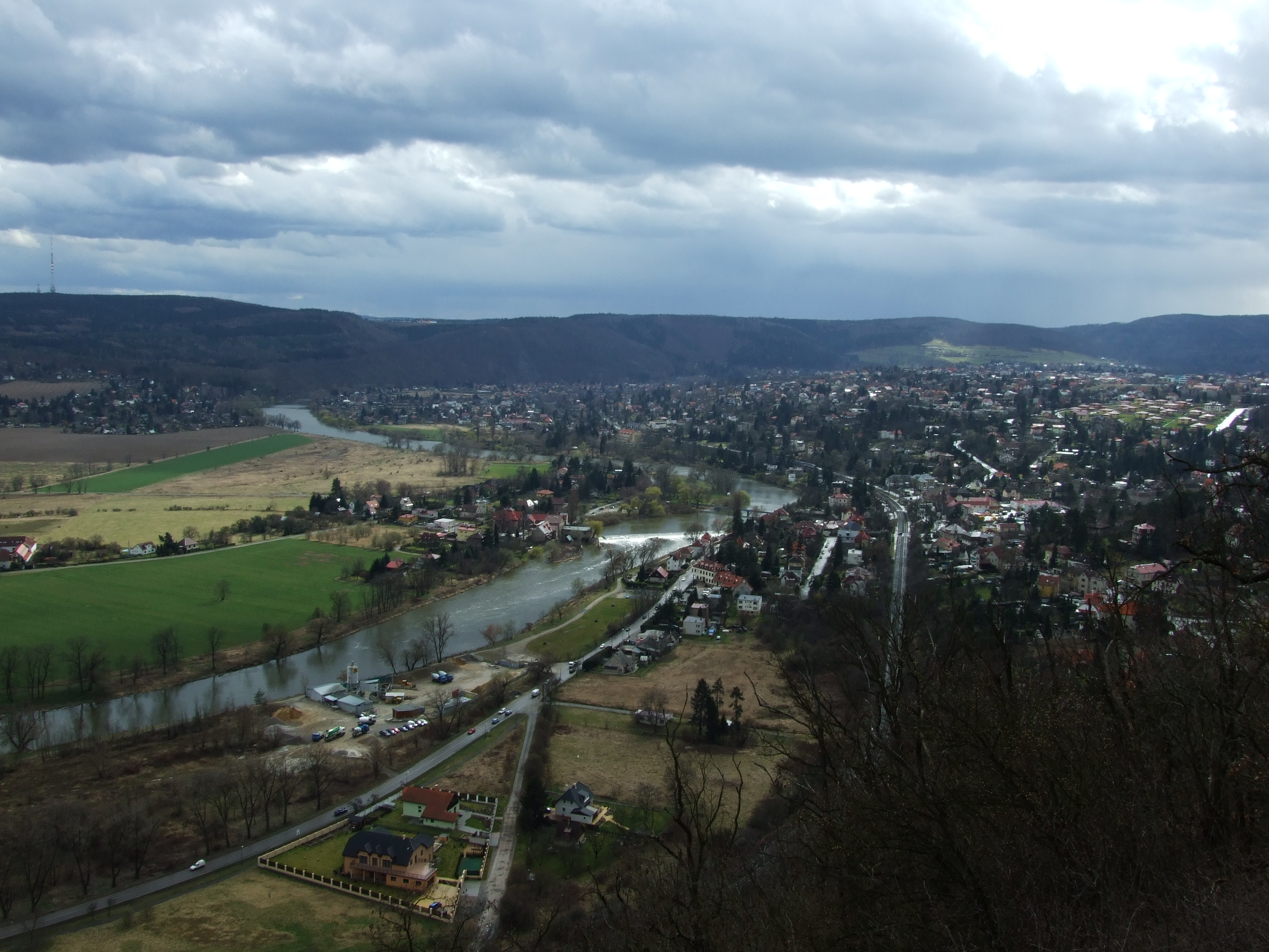 Aerial view of Černošice